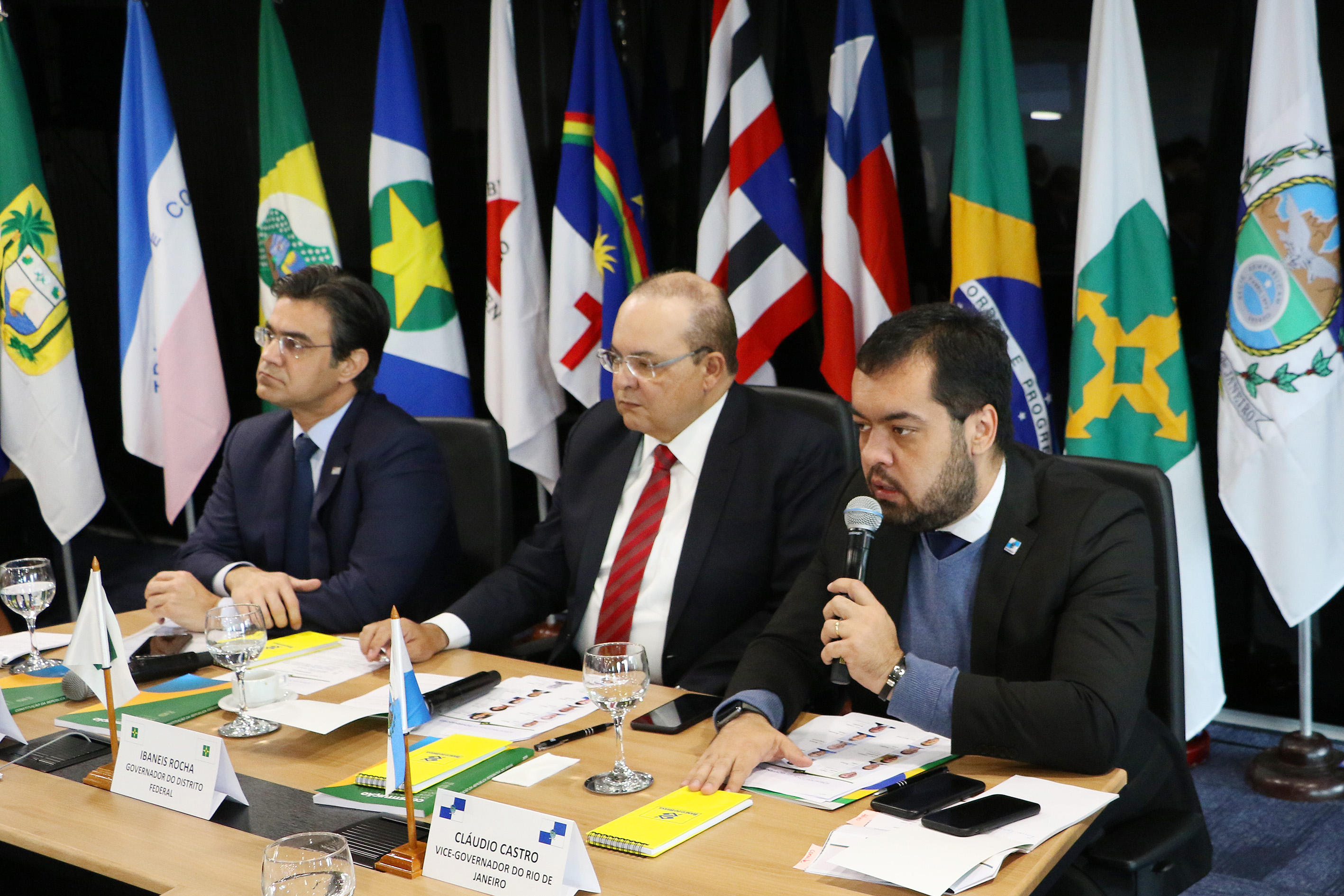 O governador Ibaneis Rocha, coordenador do evento, recepciona nesta terça (06/08), os chefes dos Executivos estaduais de todo o Brasil. Na foto, o vice-governador Rodrigo Garcia (SP), o governador Ibaneis Rocha (DF) e o vice-governador Cláudio Castro (RJ). Foto: Renato Alves/Agência Brasília.